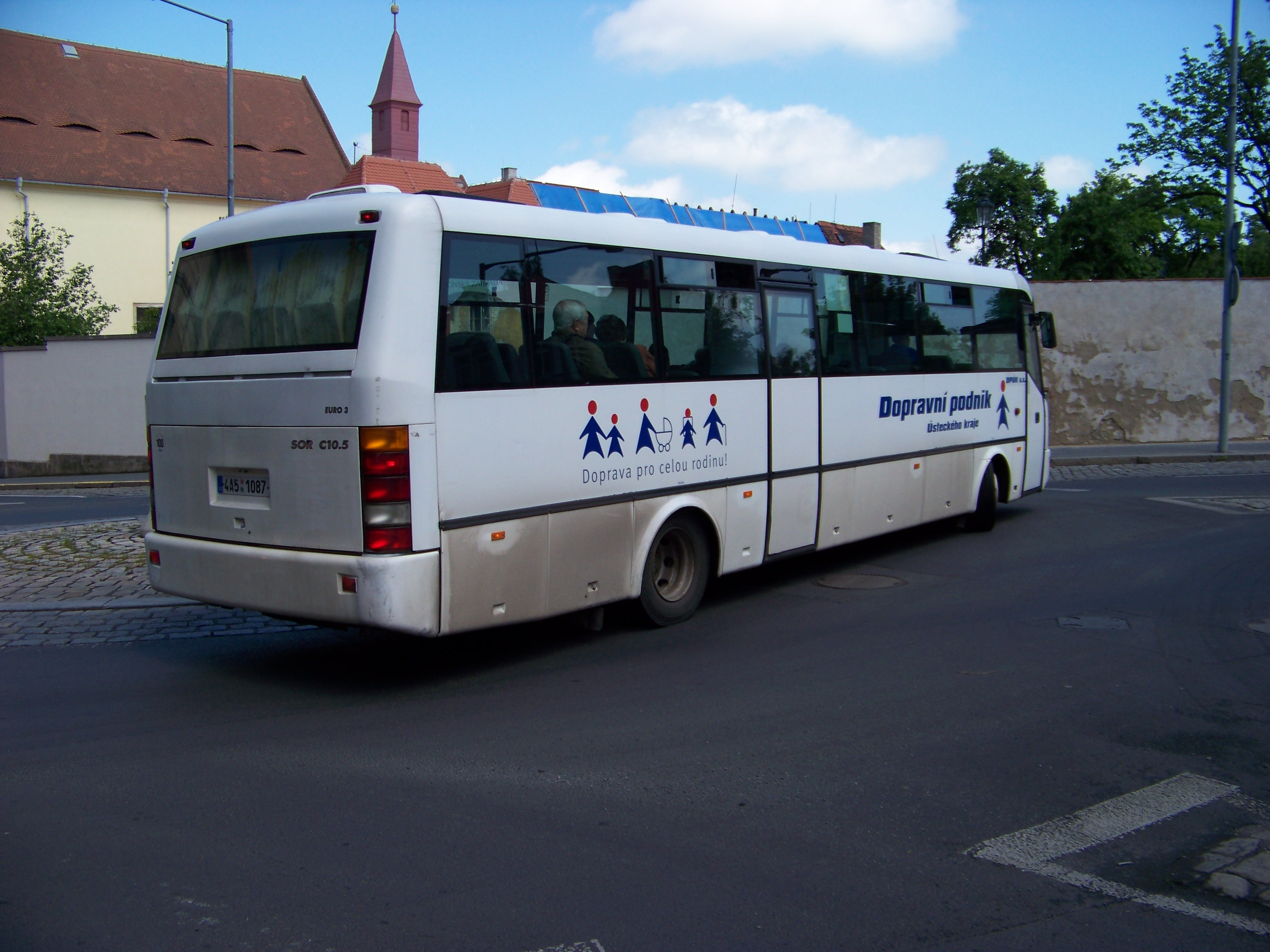 Žatec, Louny District, Ústí nad Labem Region, Czech Republic. A bus of DPÚK.